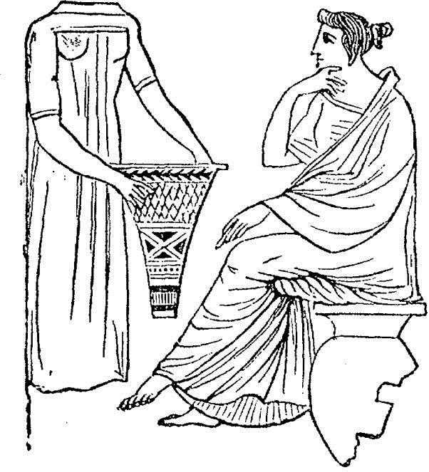 A slave presenting her mistress with the calathus.